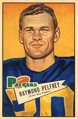 American football player Ray Pelfrey on a 1952 Bowman Large card.